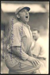 Photograph of Pea Ridge Day, circa 1921